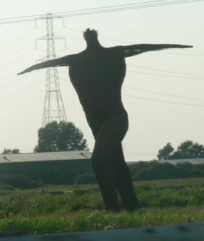 Willow Man in Bridgy